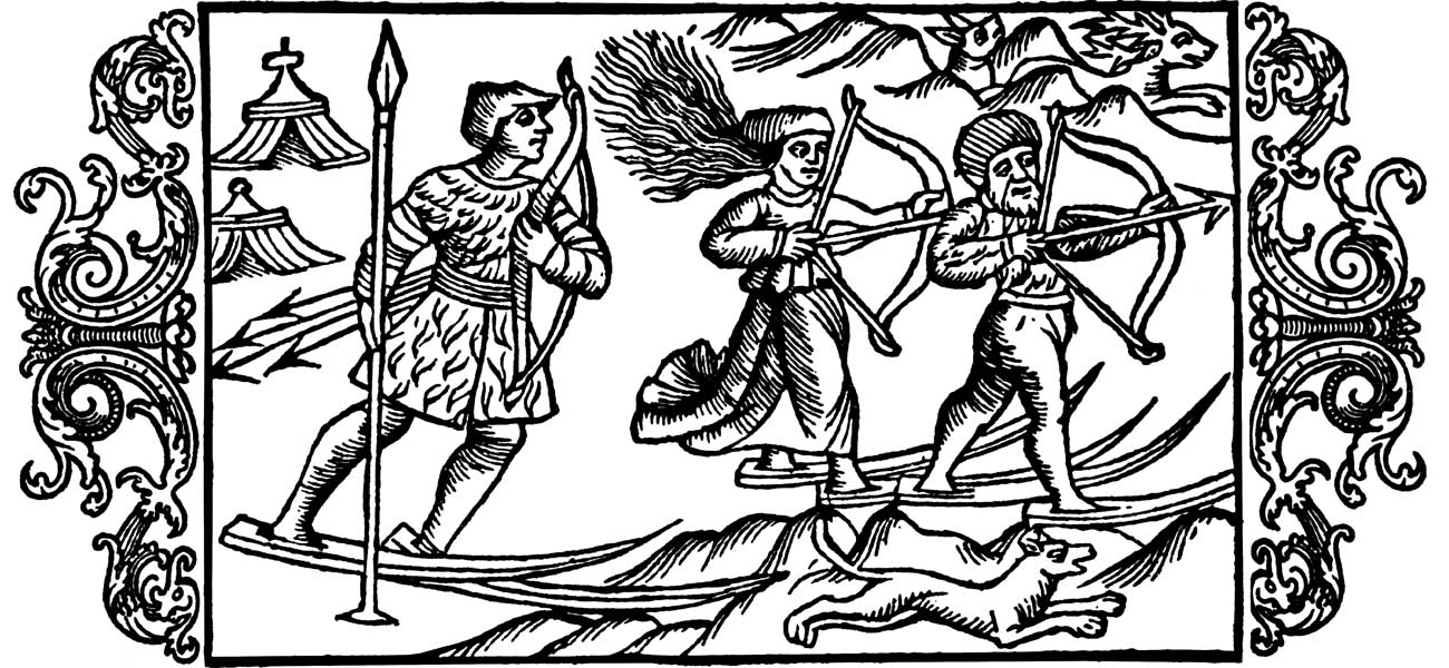 The picture shows three hunters with skis. You can see a sporting dog in the foreground and fleeing reindeers in the background.